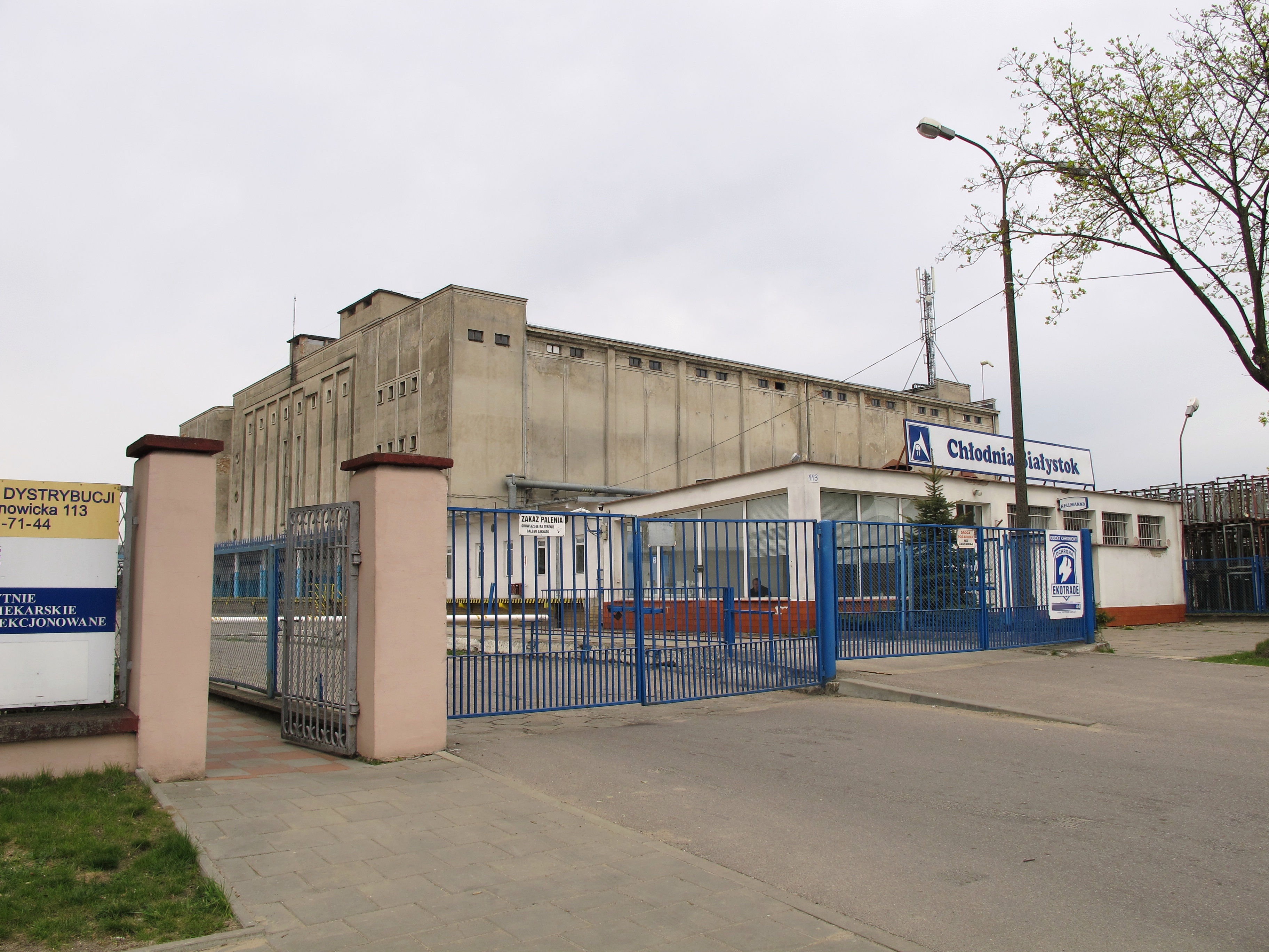 Cold-store Białystok at Baranowicka 113 street, Bialystok, Poland